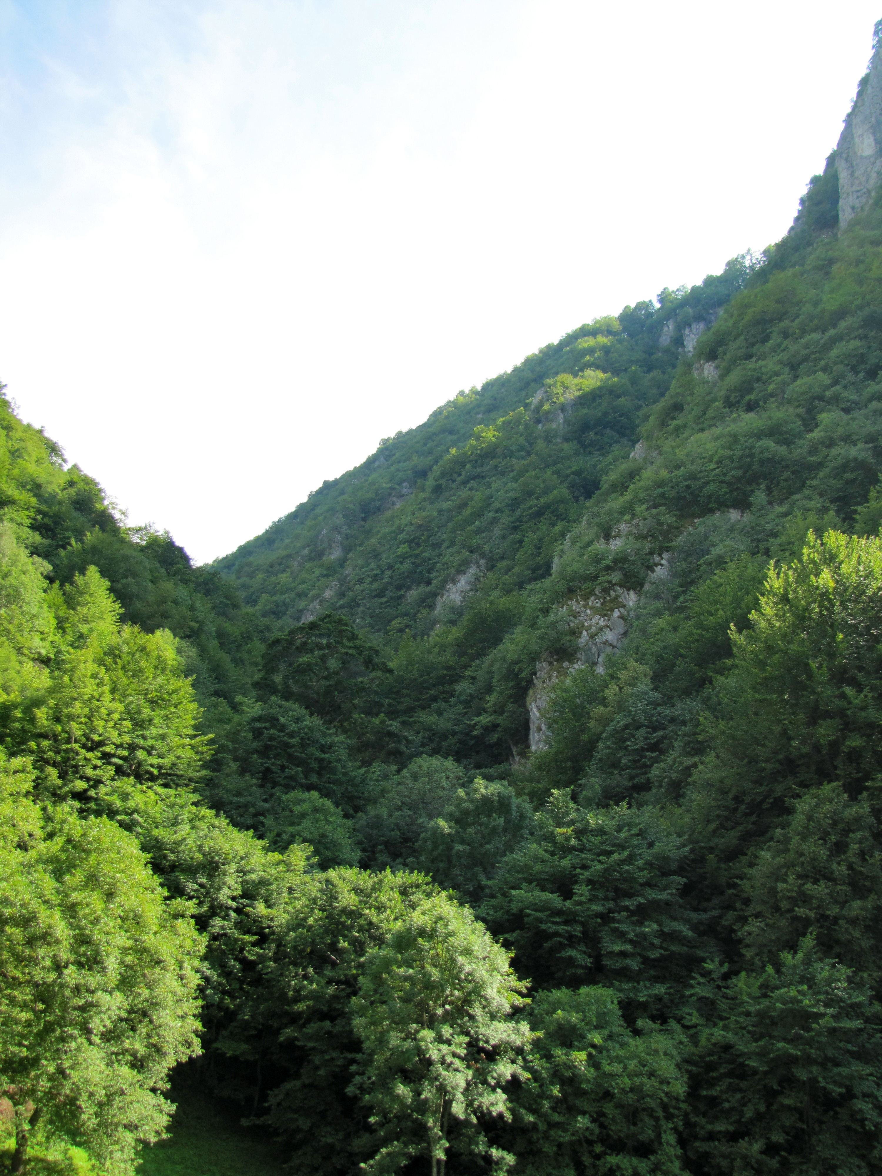 View on Žabarska gorge of the Crna Rijeka river (SW Serbia).